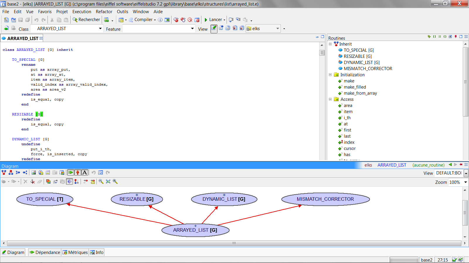 A window containing three panes: an editor pane containing class source code, a features pane containing a list of features of the class source code under edit, and a diagram pane showing the class as an icon with relationships to other classes